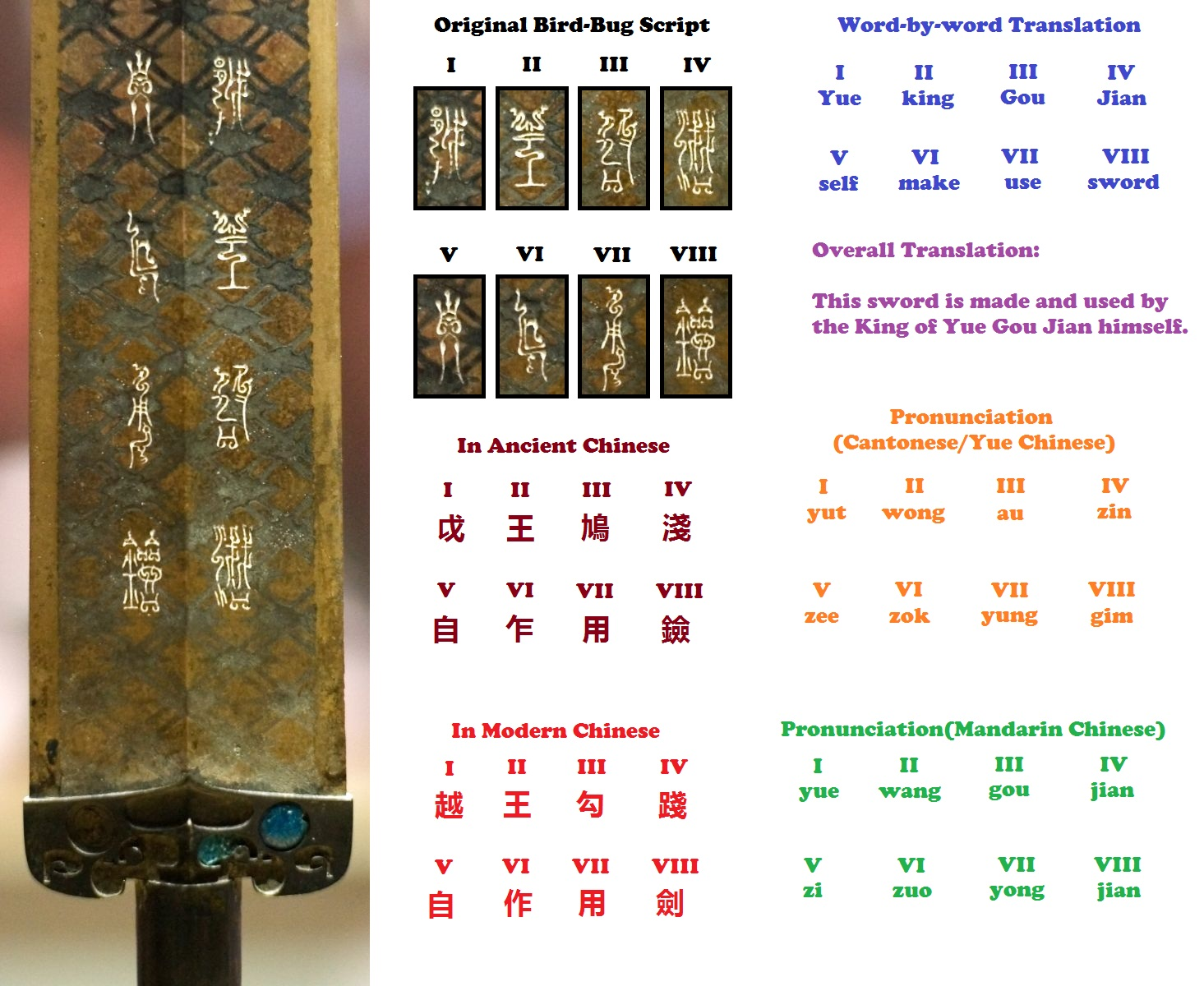 what the script means